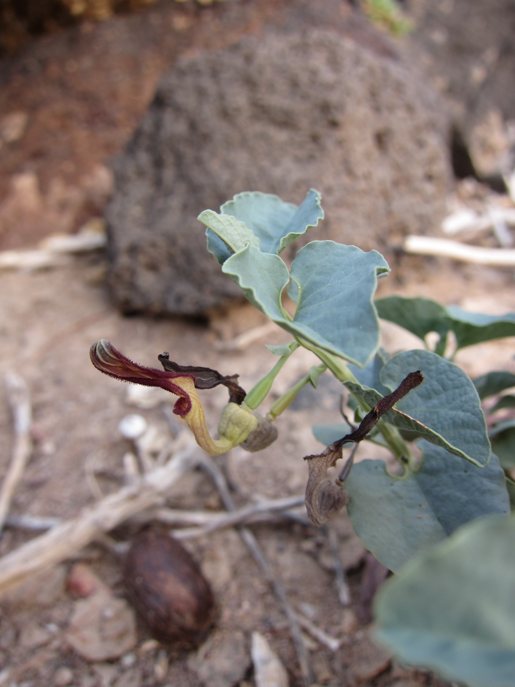 Aristolochia bracteolata, Tadjourah, Djibouti